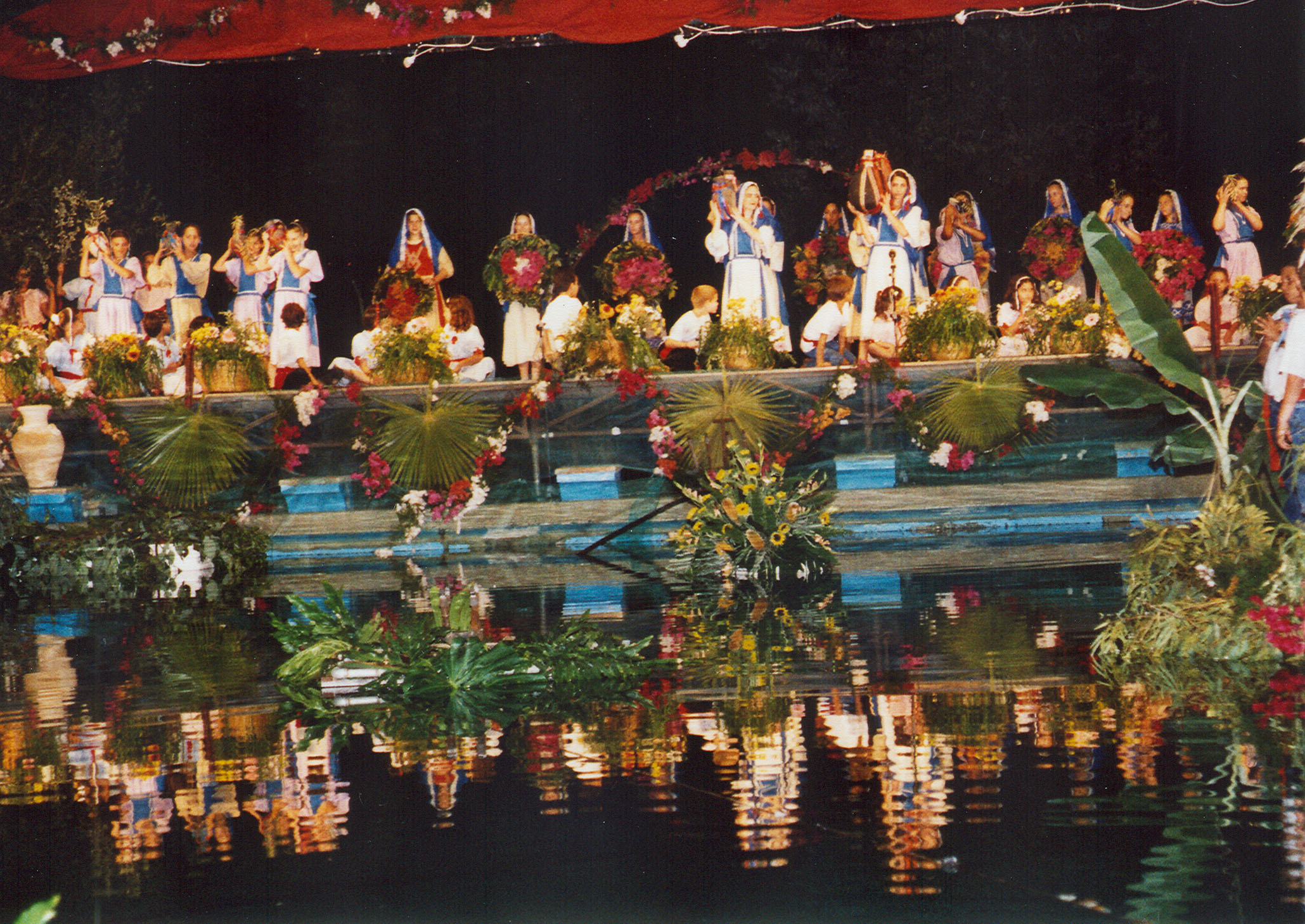 Water Festival at Kibbutz Ramat Yohanan, Jewish holidays